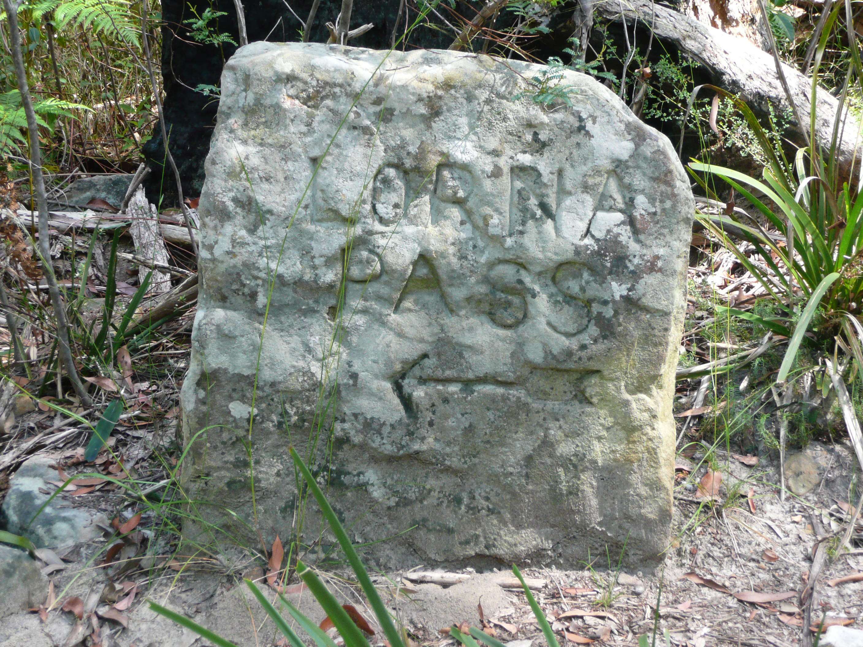 Rock inscription for walking track called Lorna Pass, Lane Cove River area, Thornleigh, Sydney. The track was named after Lorna Brand, who raised money to provide relief work during the Depression of the 1930s.